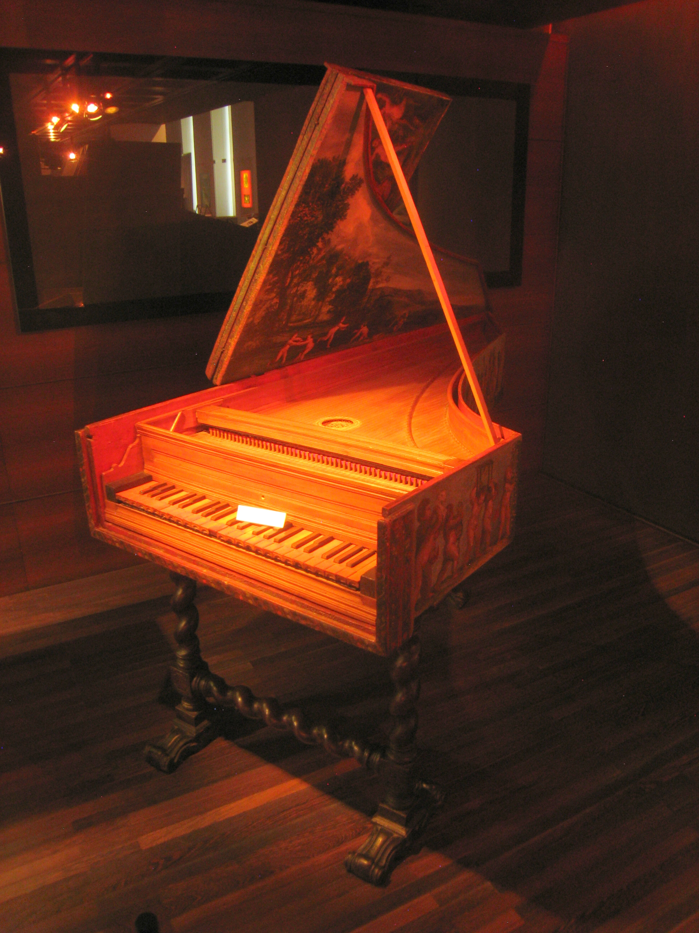 Keyboard instrument in the Musical Instrument Museum, Brussels, Belgium. Giovanni Battista Boni, Cortona, 1619 - clavecin.